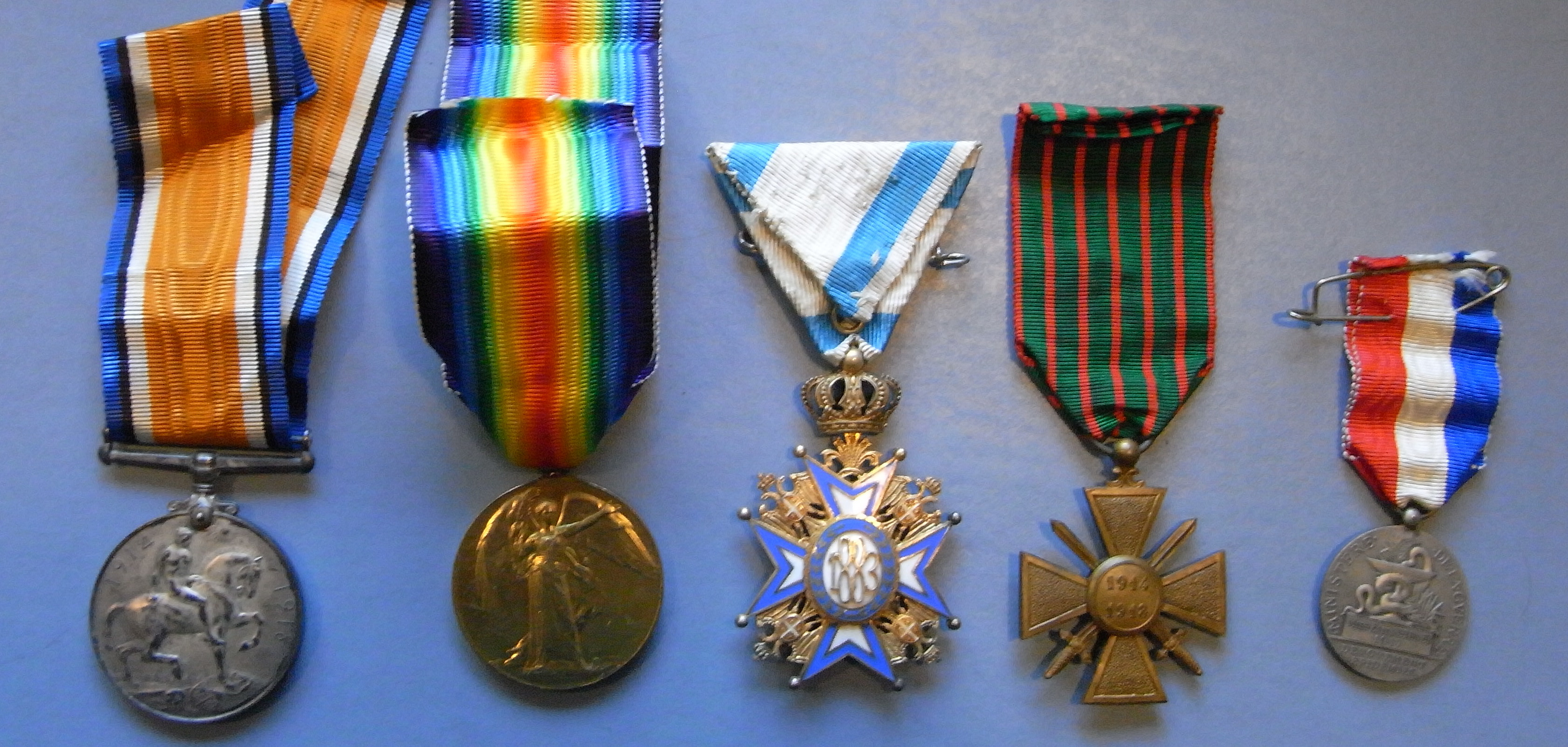 Edith Stoney's medal held at Newnham College, Cambridge. From left to right: British War Medal, British Inter-Ally Victory Medal, the Order of St Sava from Serbia, the French Croix de Guerre 14-18 (reverse of medal) and the French “Médaille des épidémies du ministère de la Guerre” (reverse).